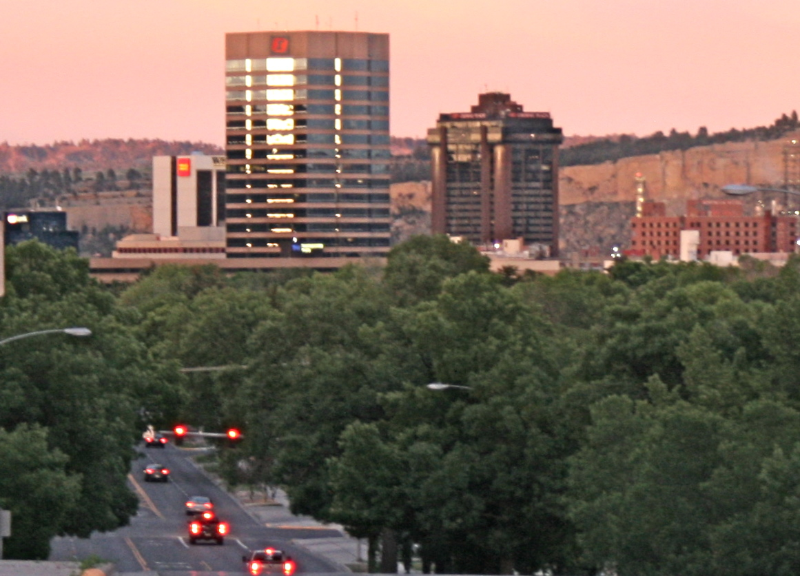 Downtown Billings, Montana